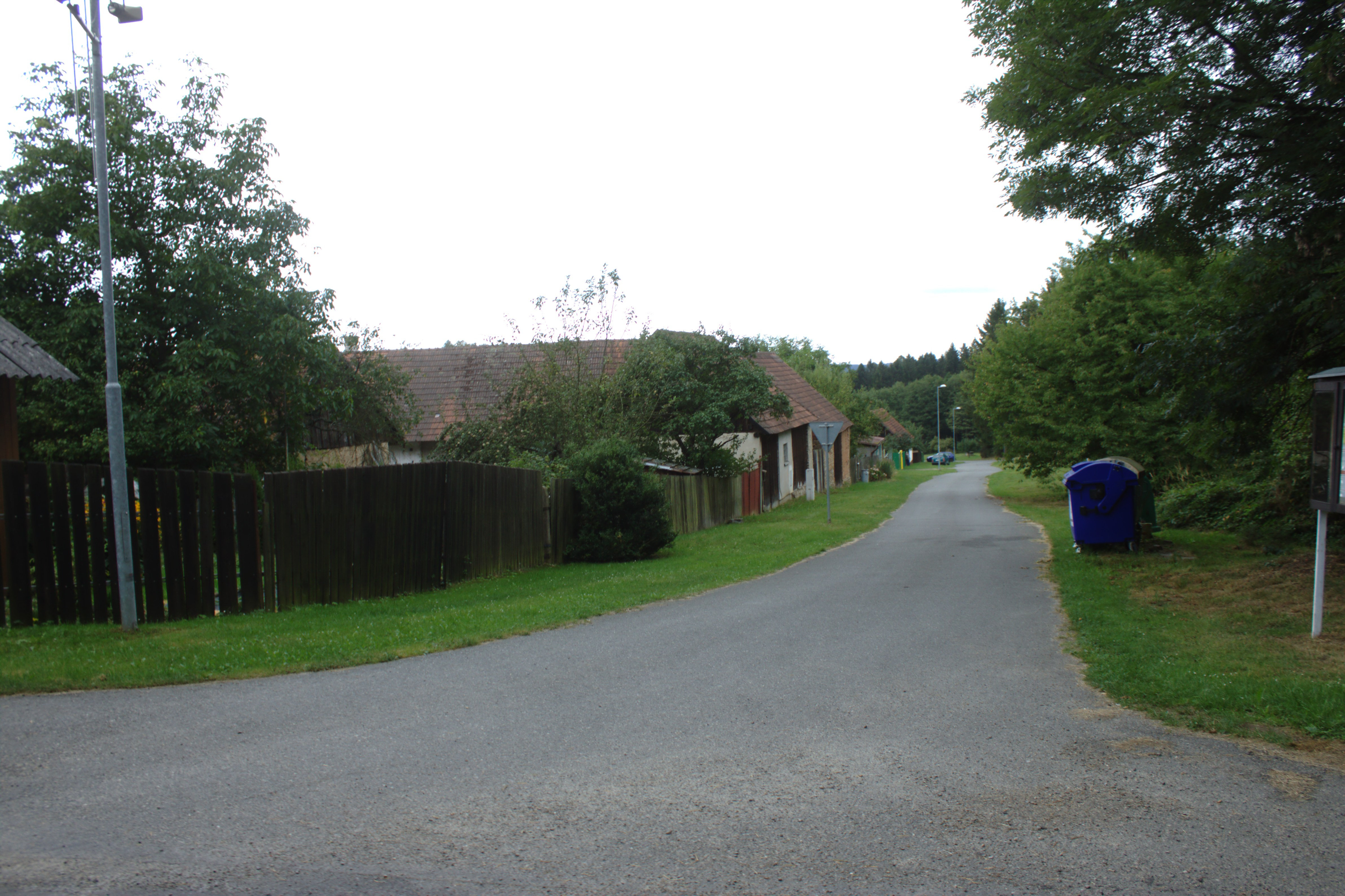 A road in the village of Kateřinky near Vyklantice